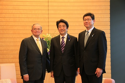 Leo Melamed, Chairman Emeritus of the CME Group Inc., met Shinzō Abe, Prime Minister, and Tsuyoshi Takagi, Senior Vice-Minister of Land, Infrastructure, Transport and Tourism, at the Prime Minister's Official Residence in Chiyoda Ward, Tōkyō Metropolis on July 1, 2014.